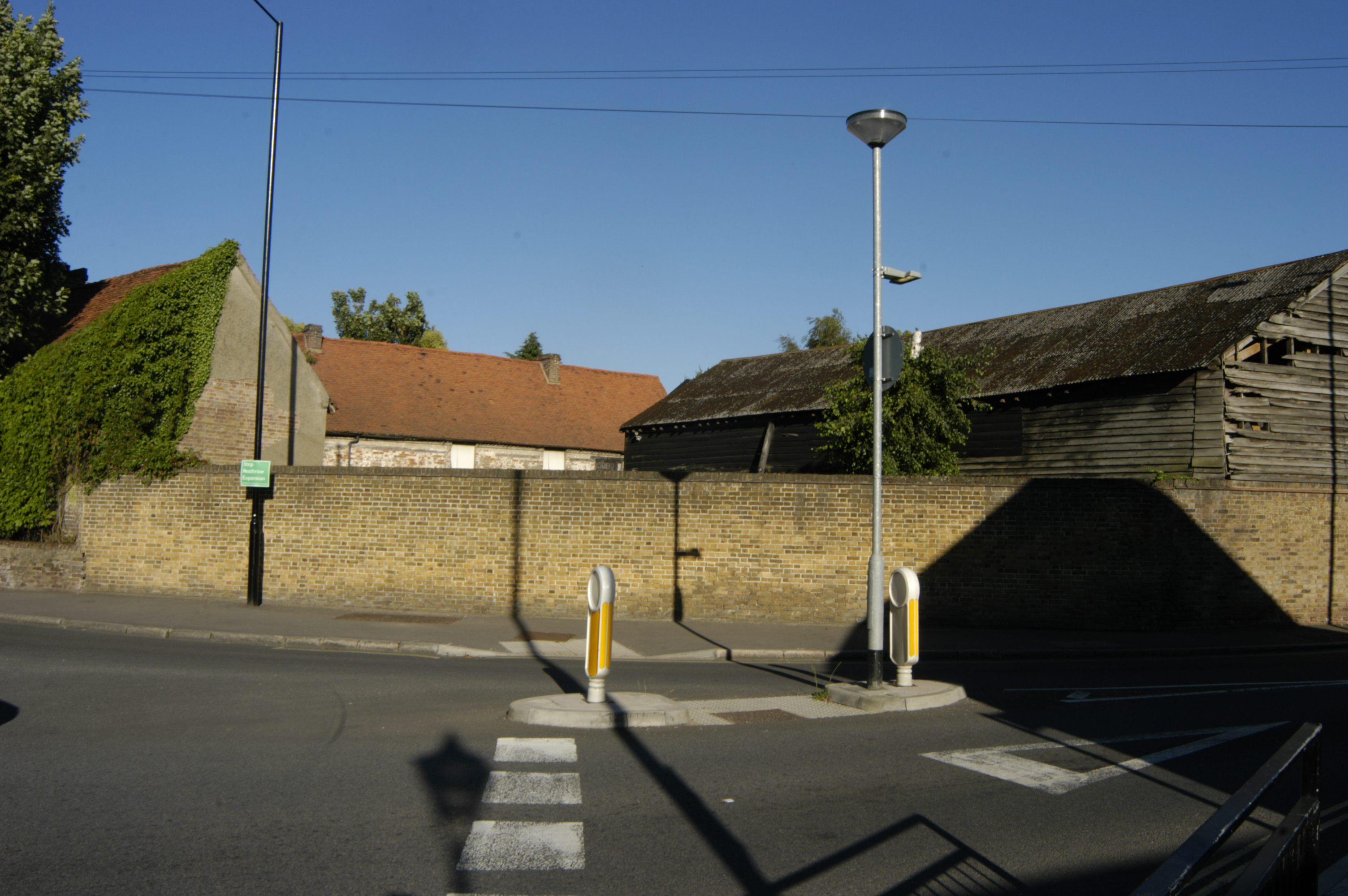 Photograph by R. de Salis (me, Rodolph (talk) 12:31, 20 July 2015 (UTC)) of farm buildings on the eastern end of Harmondsworth, western Middlesex, UK, July 2015.